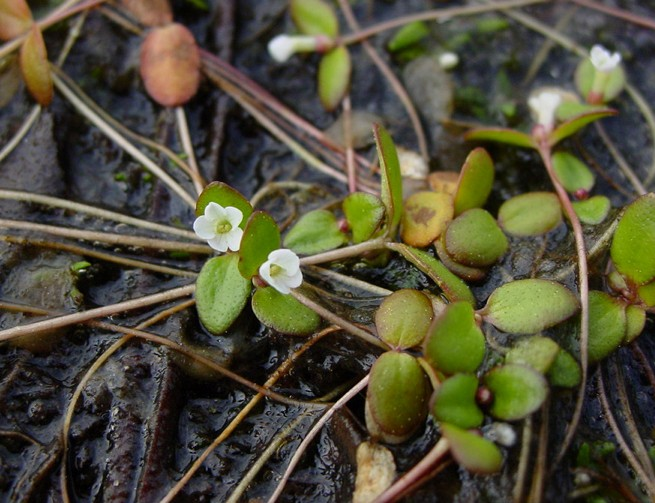 Amphianthus pusillus syn. Gratiola amphiantha in Dekalb County, Georgia, United States